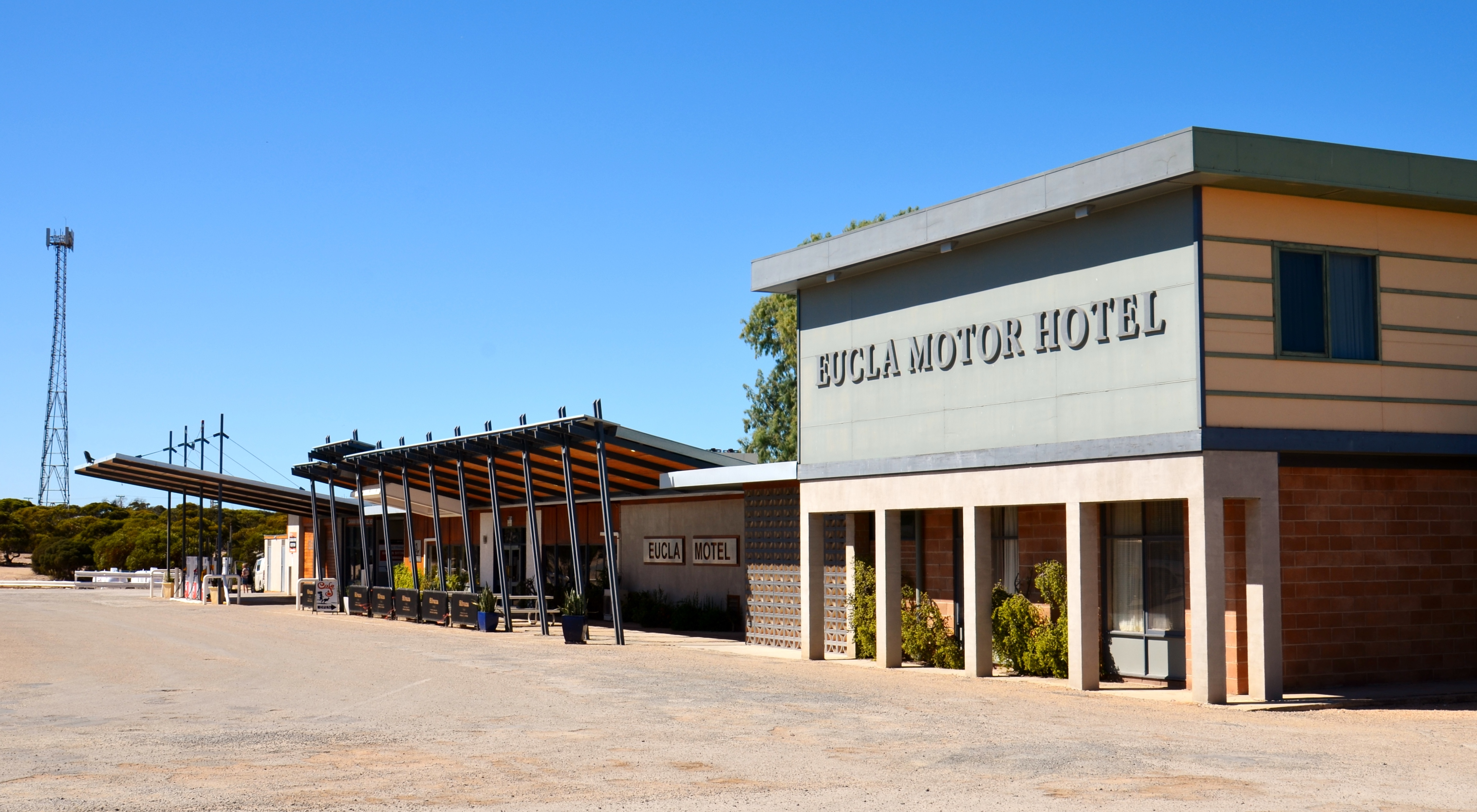 View of the Eucla Hotel Motel, Eucla, Western Australia.